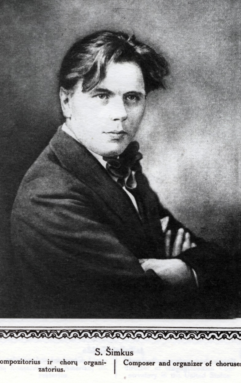 Stasys Šimkus, Lithuanian composer, conductor, professor